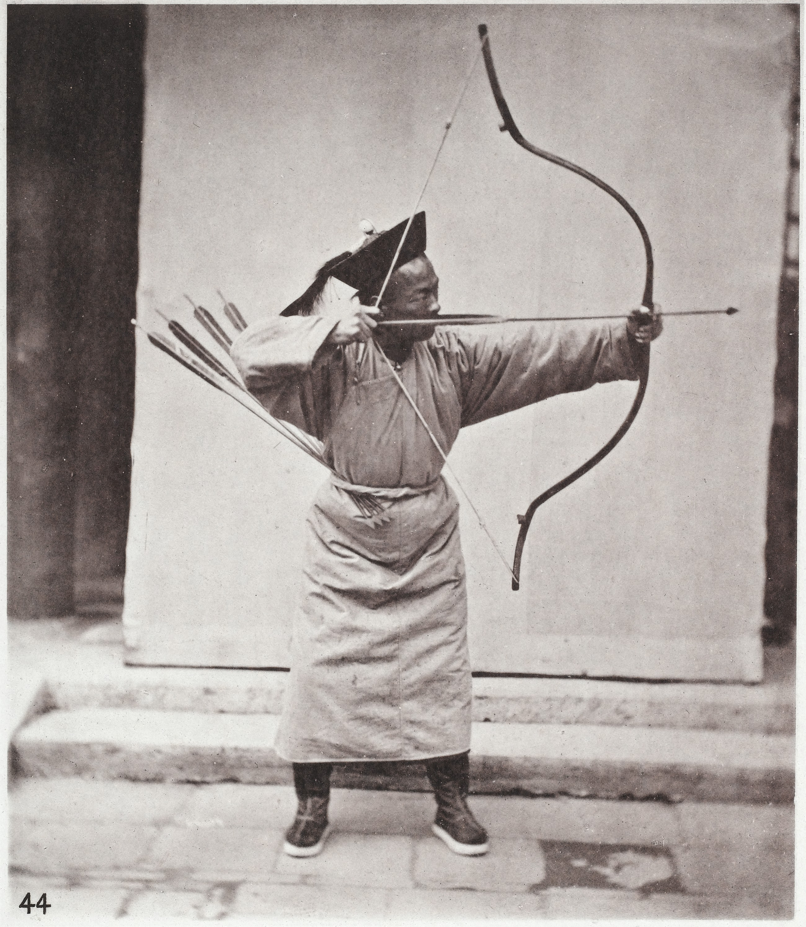 A Manchu Archer, from the North of China, with his bow and arrow. General Collections Keywords: John Thomson; Military History; Uniform; Weapons; Soldier; China; Military Personnel; Manchu (Qing) Dynasty